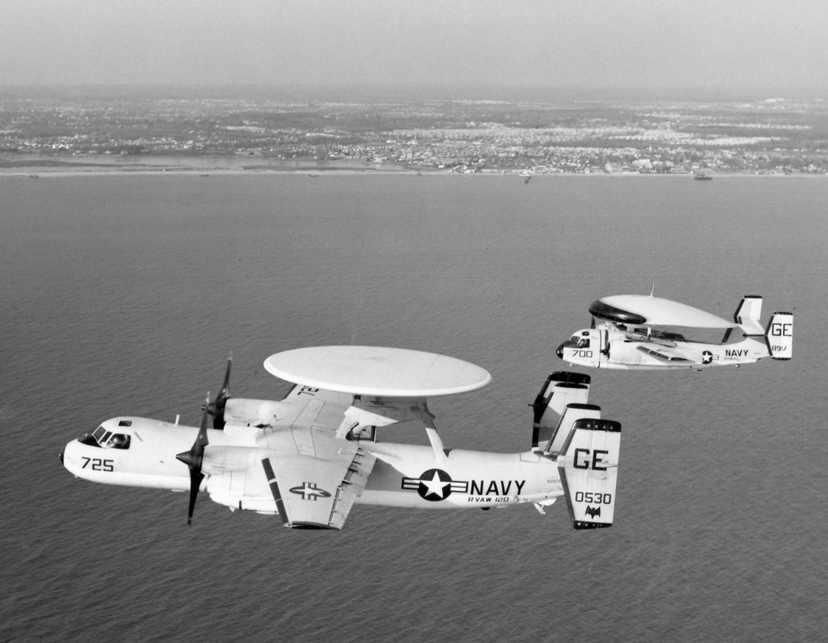 A U.S. Naval Air Reserve Grumman E-2A Hawkeye (BuNo 150530) and a Grumman E-1B Tracer (BuNo 148917) from Reserve Airborne Early Warning Squadron RVAW-120 in flight near Naval Air Station Norfolk, Virginia (USA).